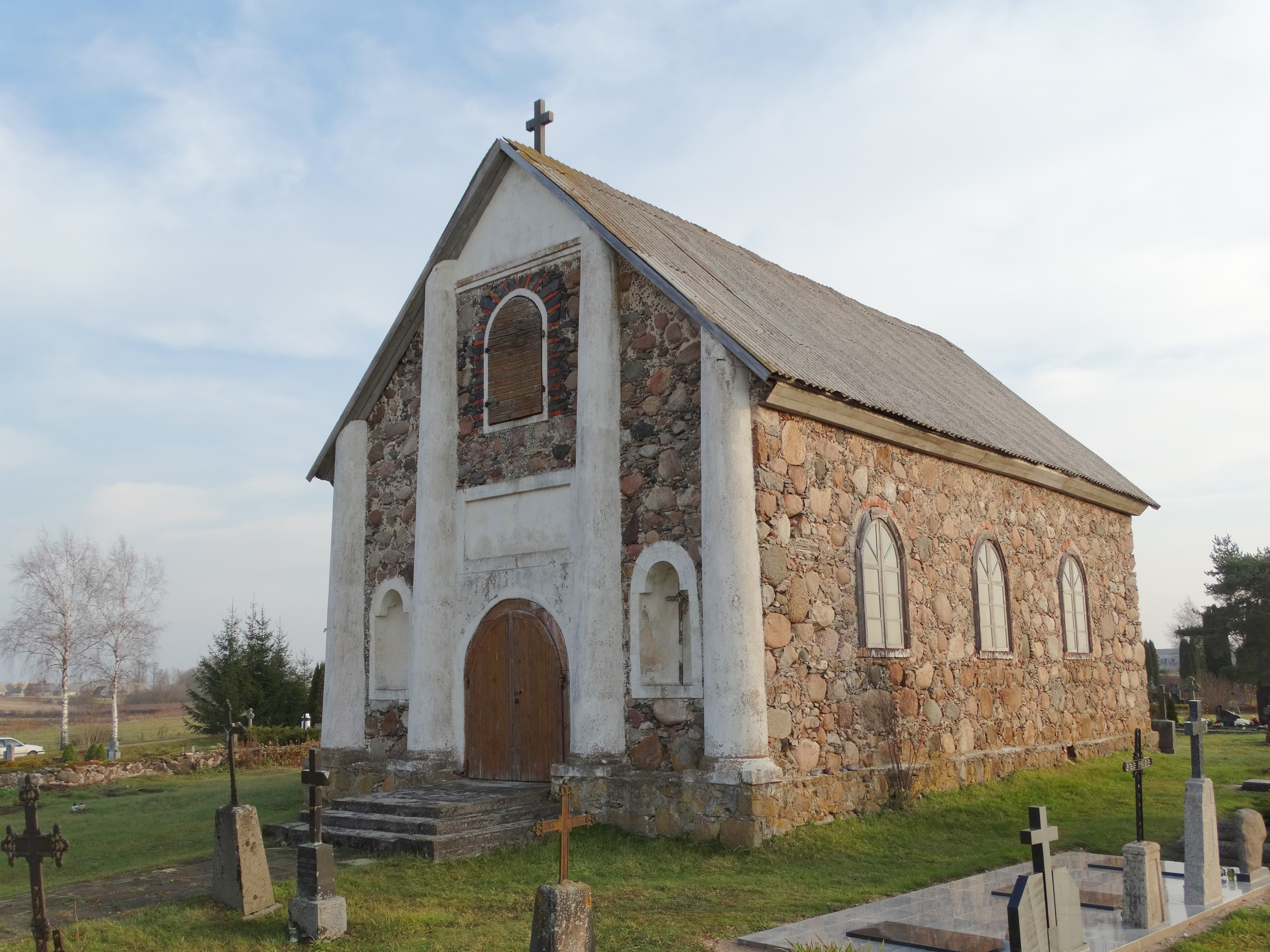 Chapel in Skrebiškiai, Biržai district, Lithuania